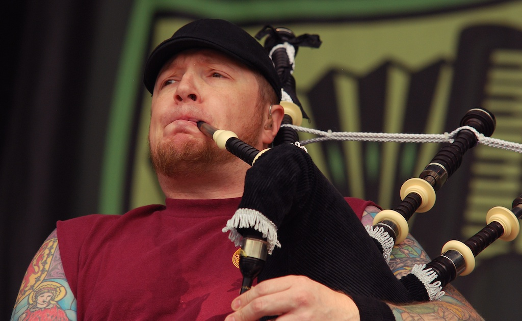 Dropkick Murphys at the 2011 Cisco Ottawa Bluesfest.